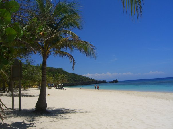 This is a picture of the beautiful West Bay Beach on Roatan which is one of the Bay Islands of Honduras.